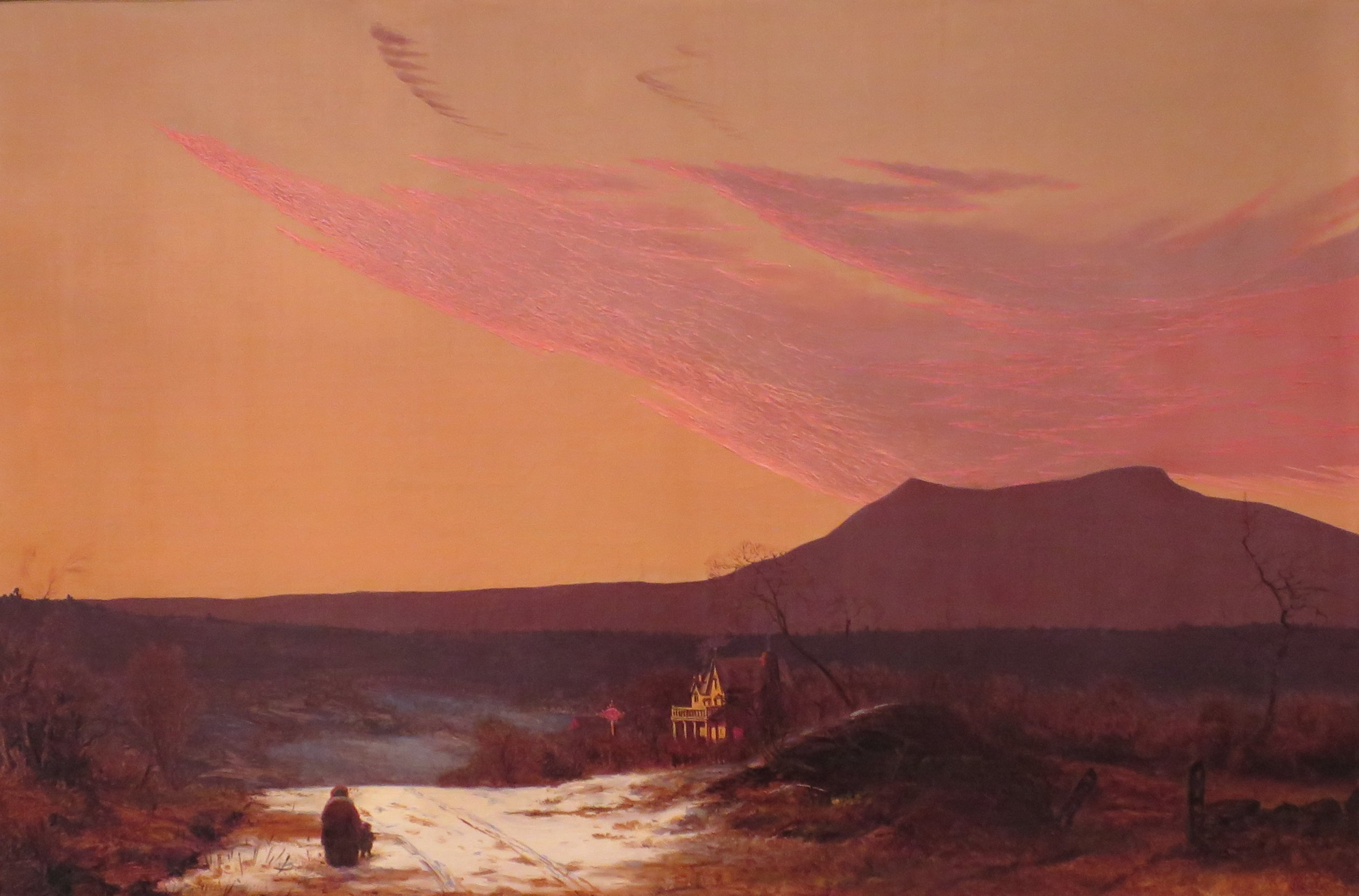 The Hudson River Valley by Jervis McEntee, oil on canvas, c. 1874, High Museum of Art